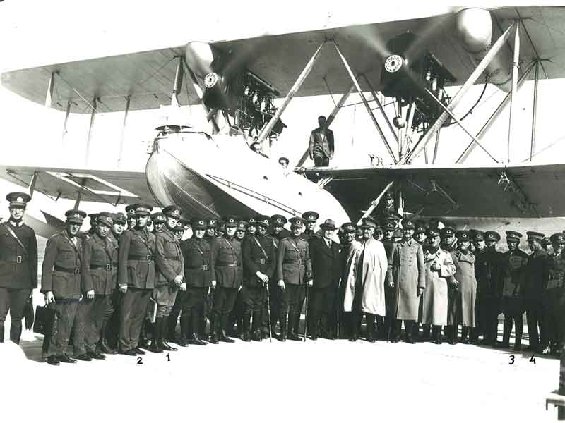 Supermarine Southampton Mk.II in 1933